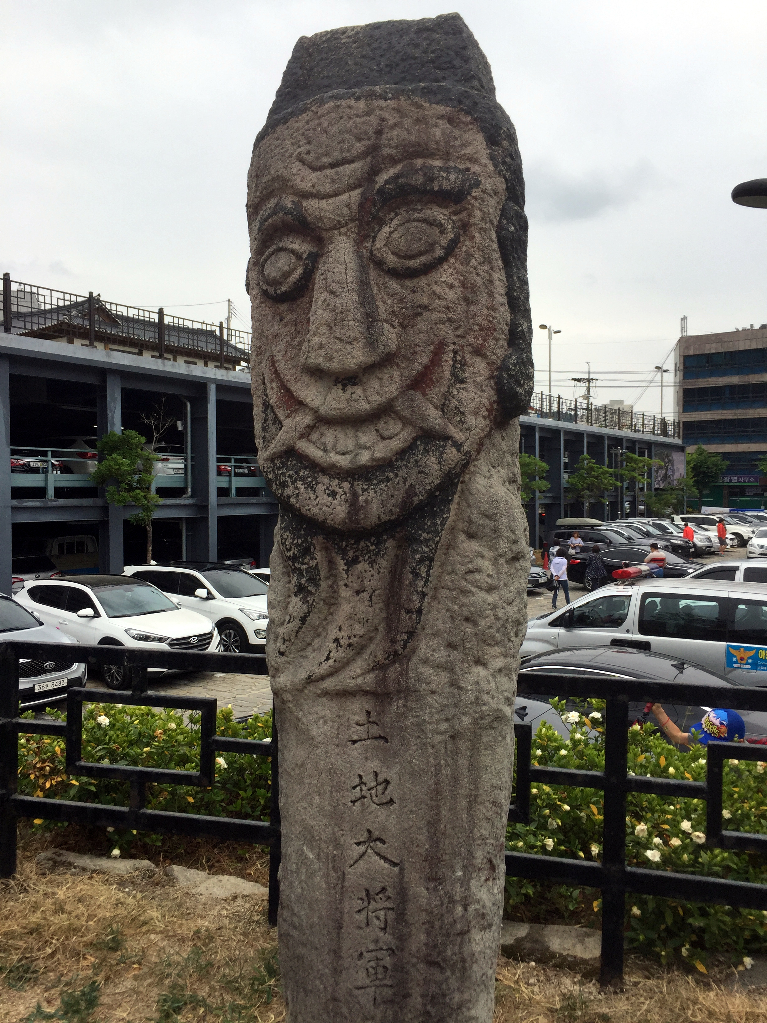 Beoksu at Munhwa dong in Tongyeong, Korea Beoksu means Stone Jangseung